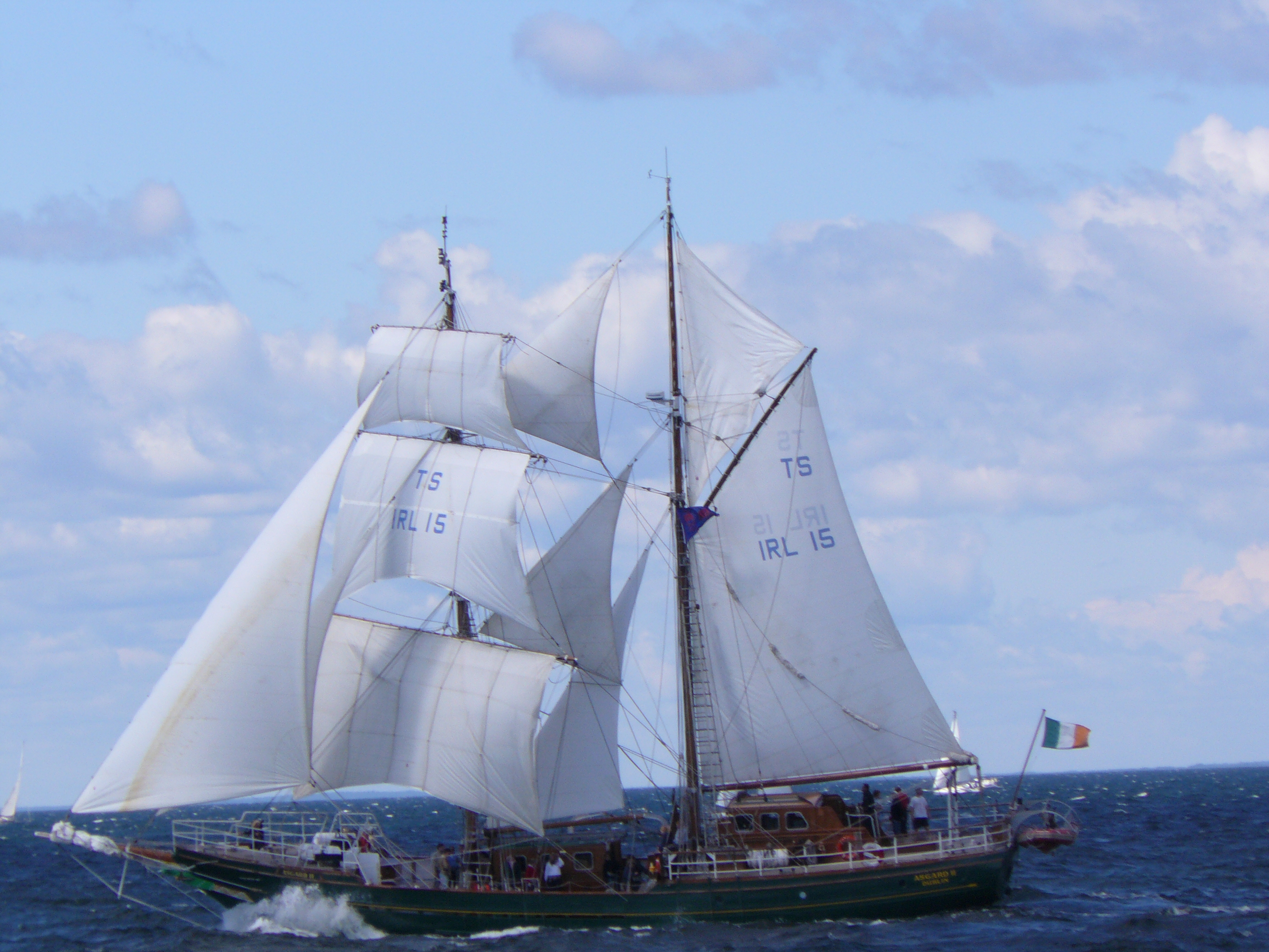 Asgard II